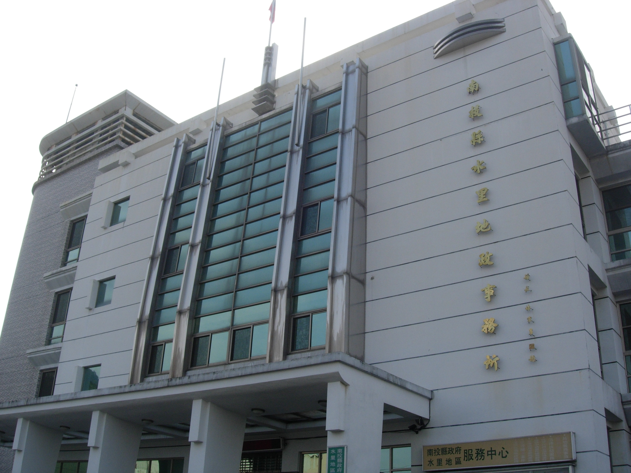 Shueili Land Office